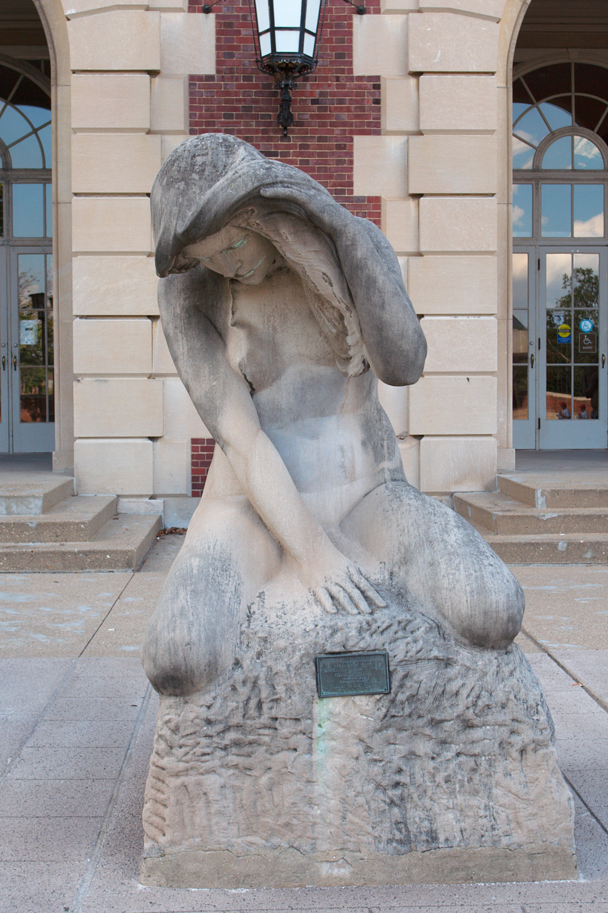 Taken on the UIUC campus, plaque reads "THE TAFT COLLECTION/A DAUGHTER OF PYRRAH/FRAGMENT FROM THE VAST UNFINISHED/FOUNTAIN OF CREATION/DESIGNED BY/LORADO TAFT/TO STAND AT THE EAST/END OF THE MIDWAY IN CHICAGO" There is a misspelling in the plaque as it should say Pyrrha instead.